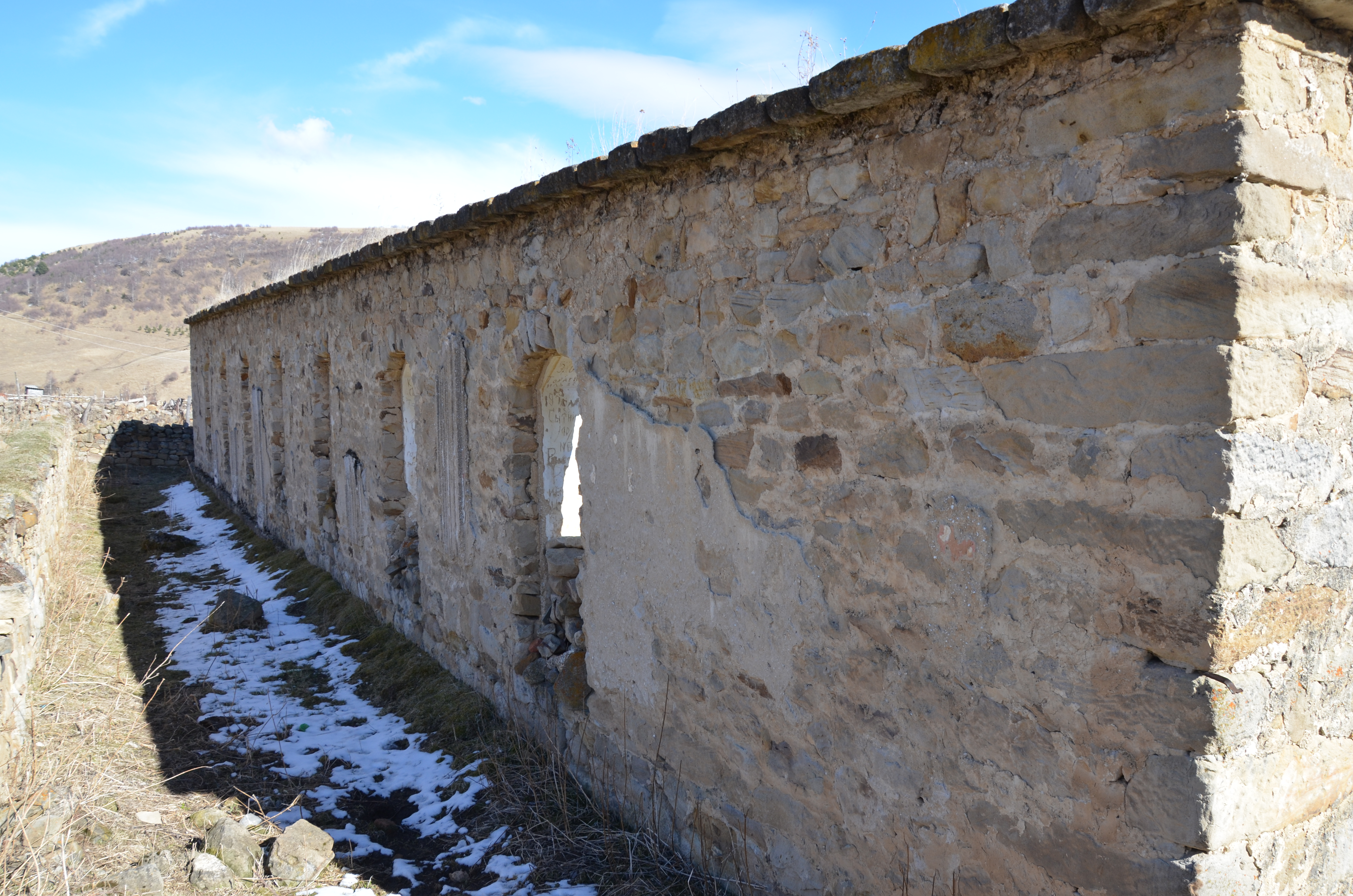 aul Khasaut`s ruins